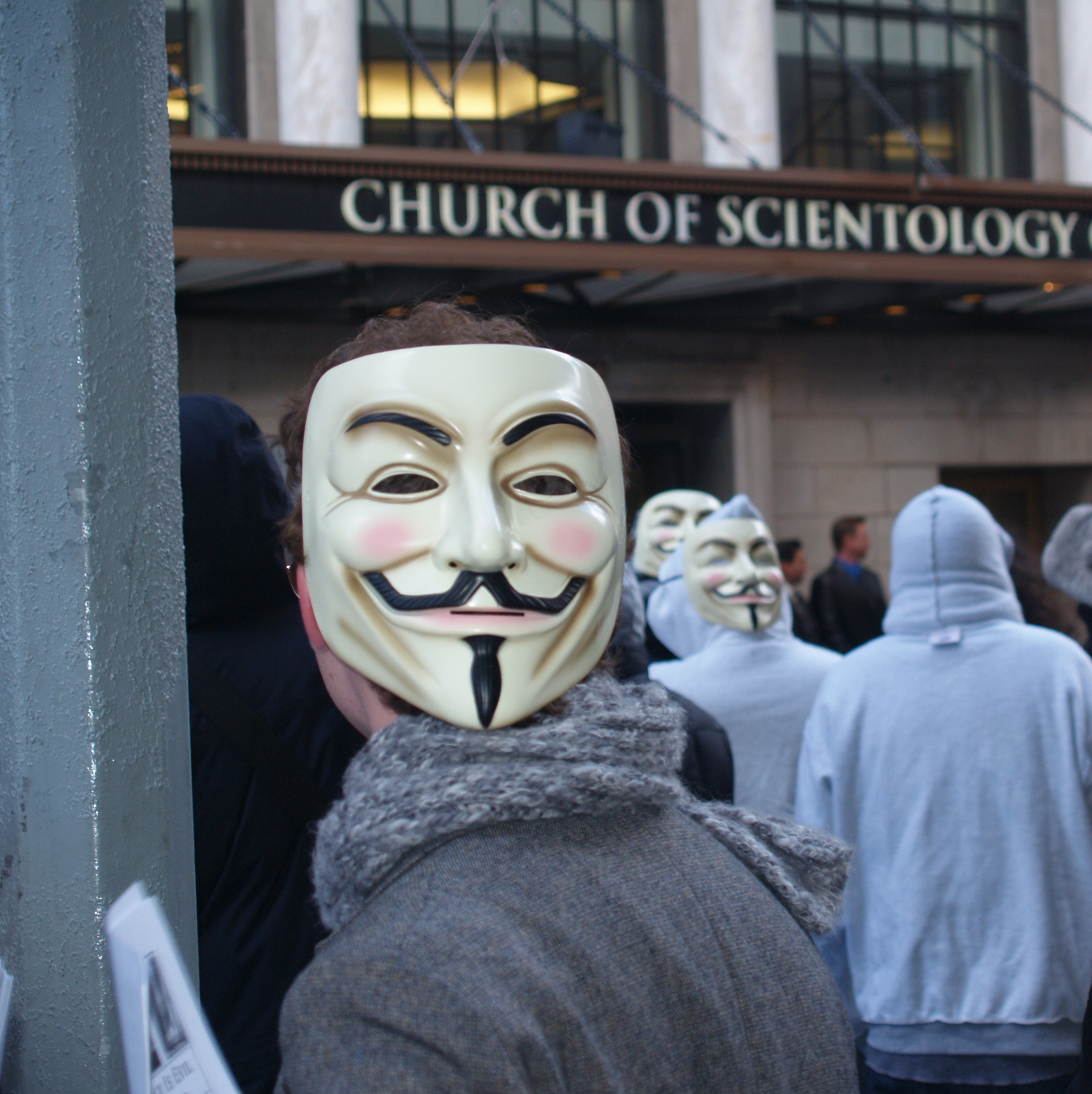 Protest by an Internet group calling itself 'Anonymous' against the practices and tax status of the Church of Scientology. The protesters believe the church is a cult that harms it practitioners, and that its tax-free status as a church should be revoked, as, they claim, it appears to be more of a corporation. The mask is in reference to the internet meme Epic Fail Guy, who wears a Guy Fawkes mask, likely originating from the V for Vendetta movie.